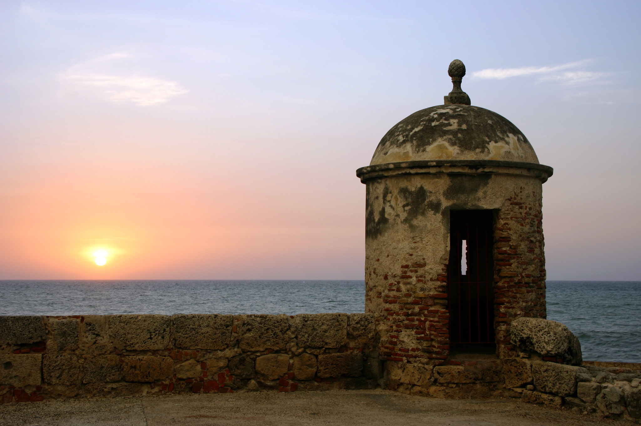 Sunset in Cartagena, Colombia